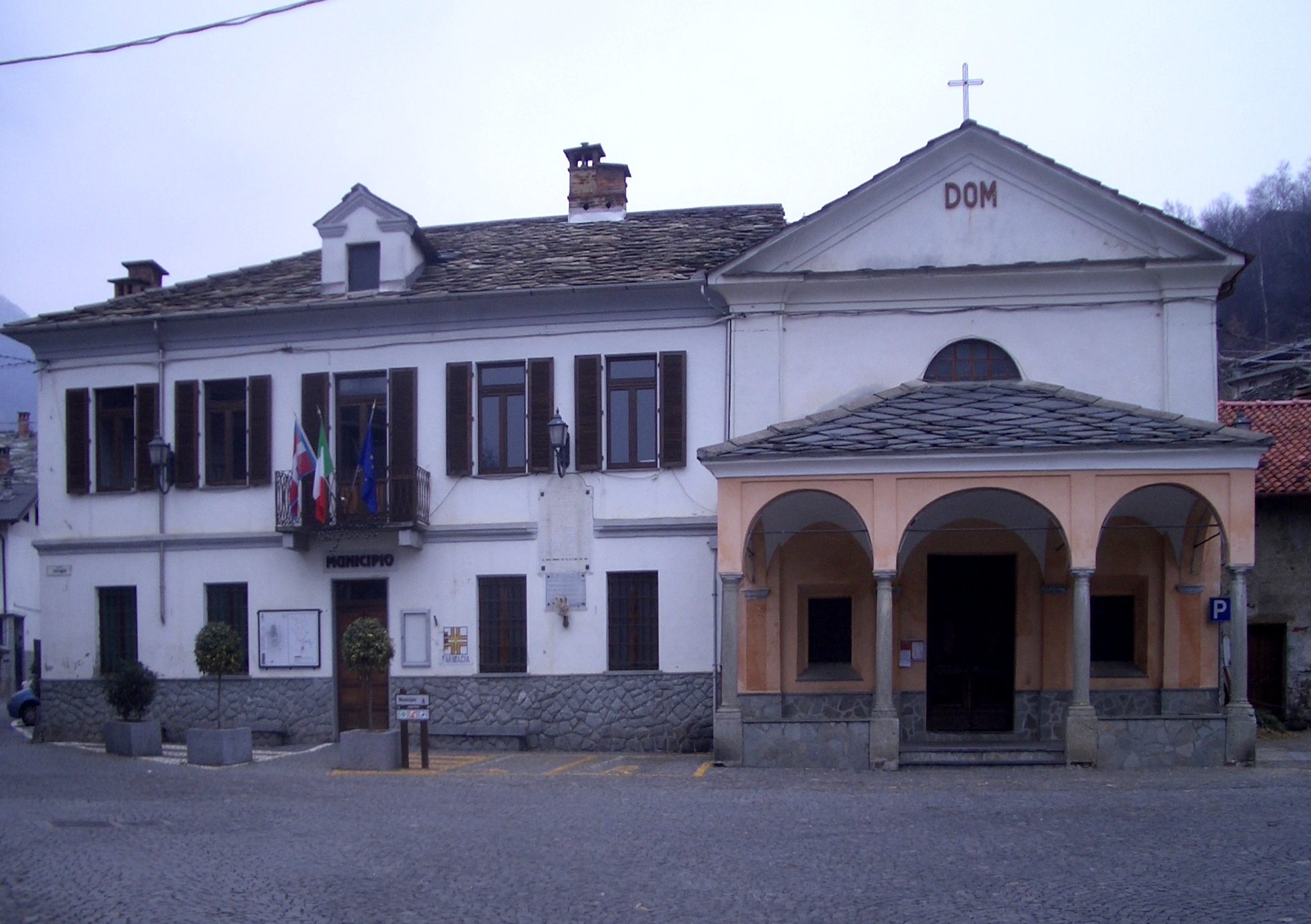 The Town Hall Square , Brosso, Turin, Italy